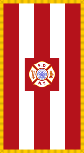 This is a logo for the New York City Fire Department. Further details: Flag of the New York Fire Department, in a vertical orientation for use on the coffins of fallen fire fighters.